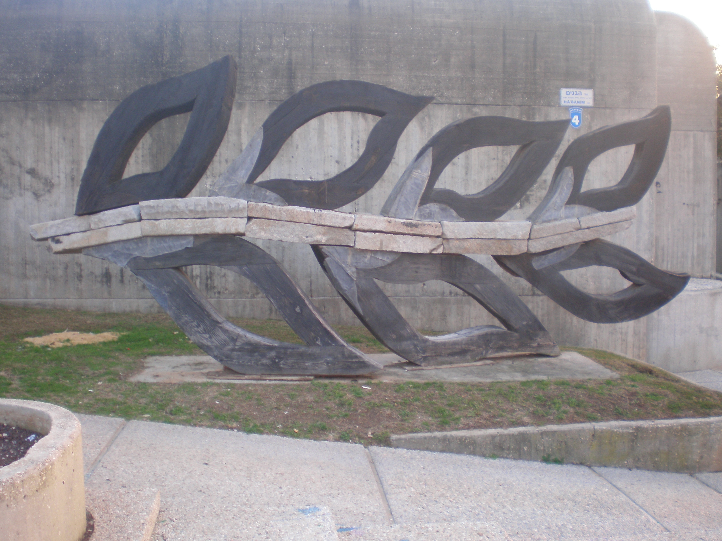 Doubts, sculpture by Ilan Averbuch, 1994-95, made of wood, stone, steel, lead. Located in Herzliya Museum, Israel.